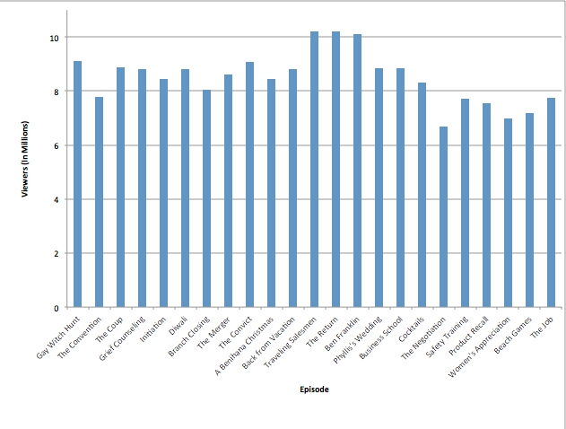 The ratings of the third season of The Office.